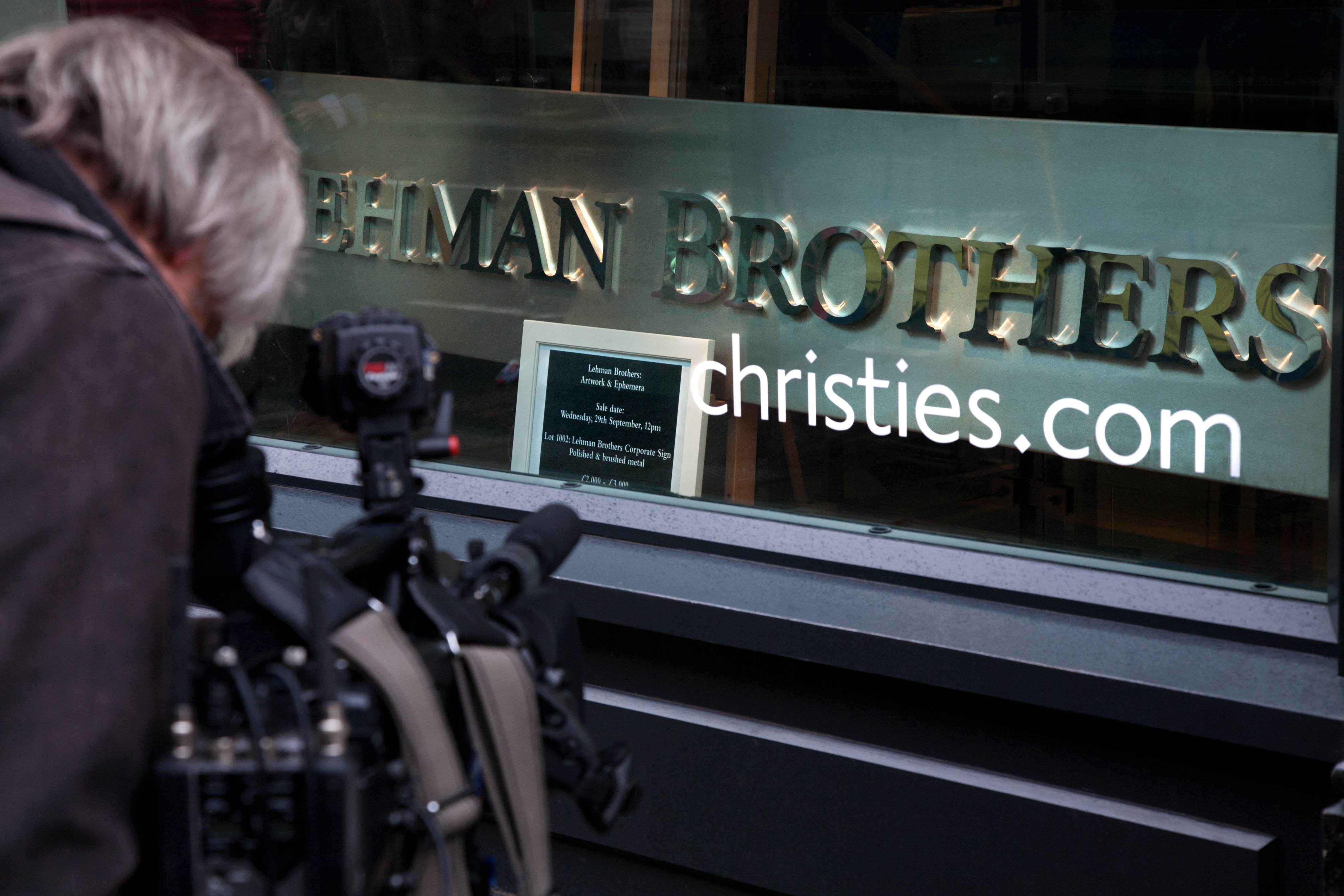 The Lehman Brothers company sign for Auction after bankruptcy at Christie's. London, UK